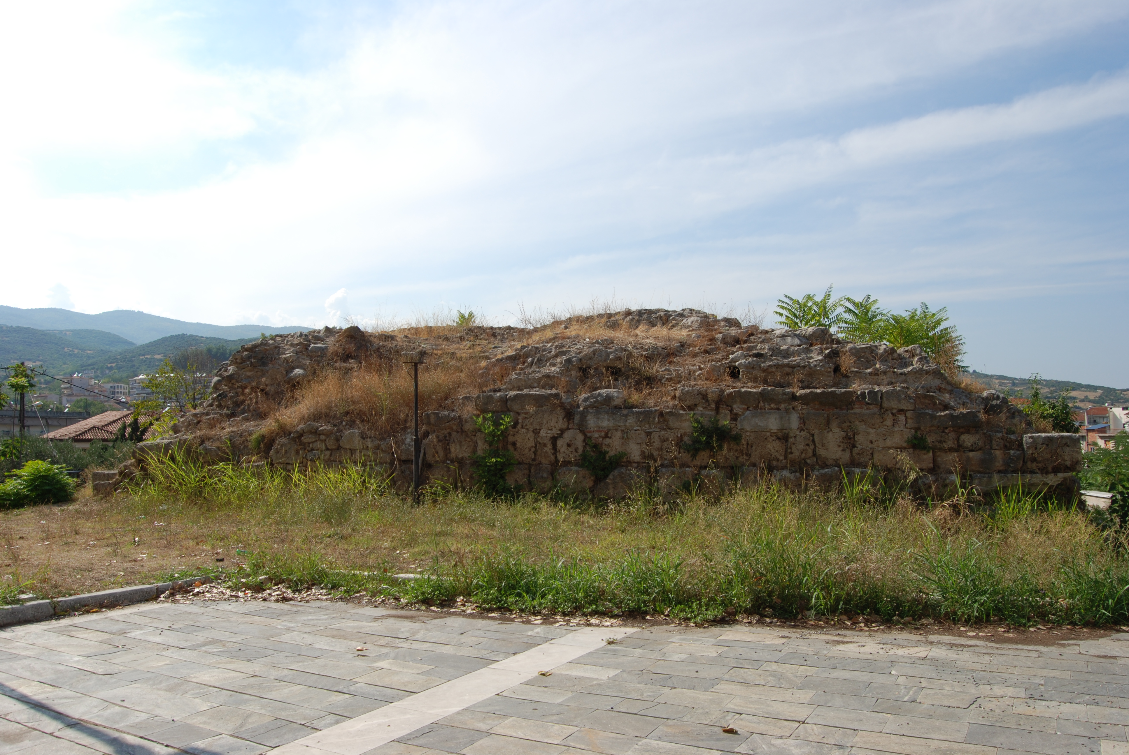 Vergina tower, Ber